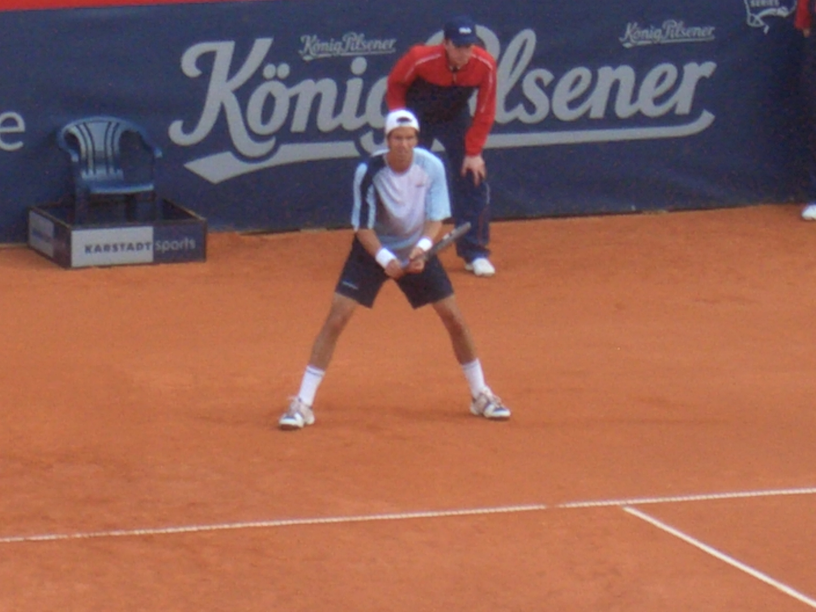 Juan Ignacio Chela at the Hamburg Masters 2008